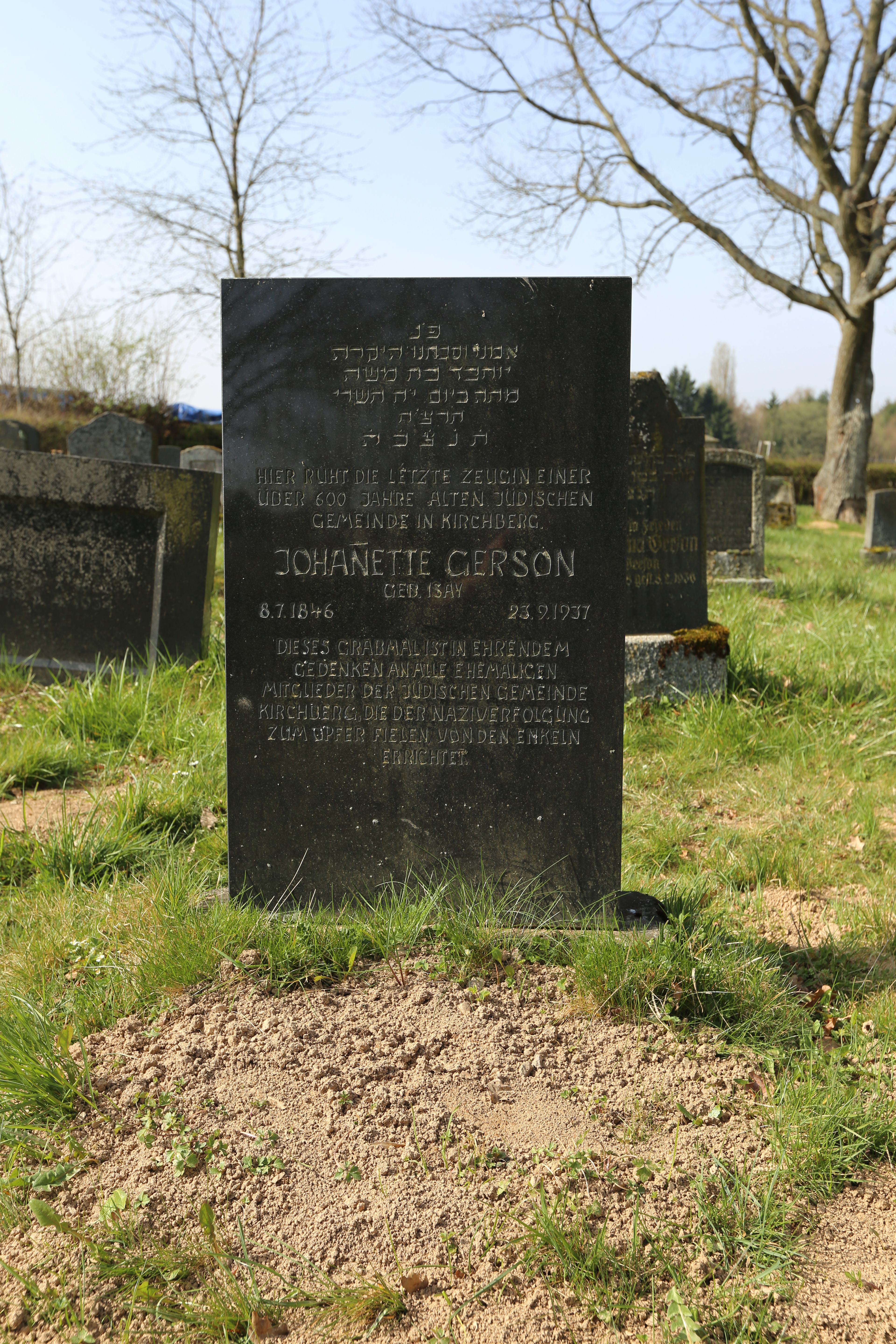 Jewish Cemetery in Kirchberg Hunsrueck area (built in 1830), Rhineland-Palatinate, Germany